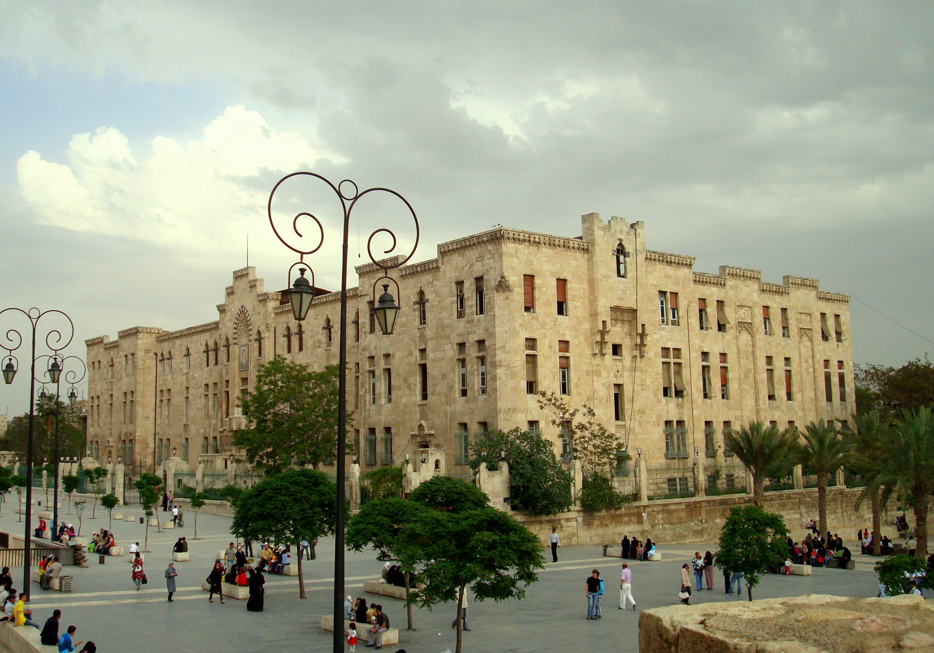 Grand Seray d'Alep